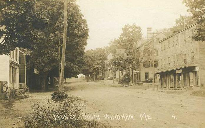 Main Street, South Windham, ME; from a c. 1910 postcard.